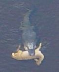 Cropped version of gator with deer